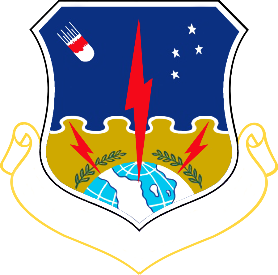 United States Air Force 1st Strategic Aerospace Division emblem. Made with Photoshop.